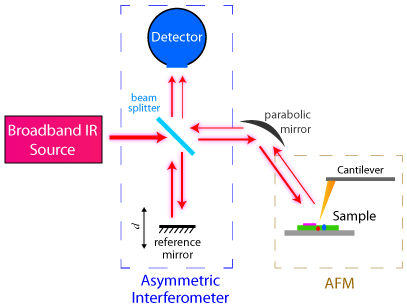 nano-FTIR setup consists of a broadband source, an interferometer and an AFM stage placed into one of the interferometer arms